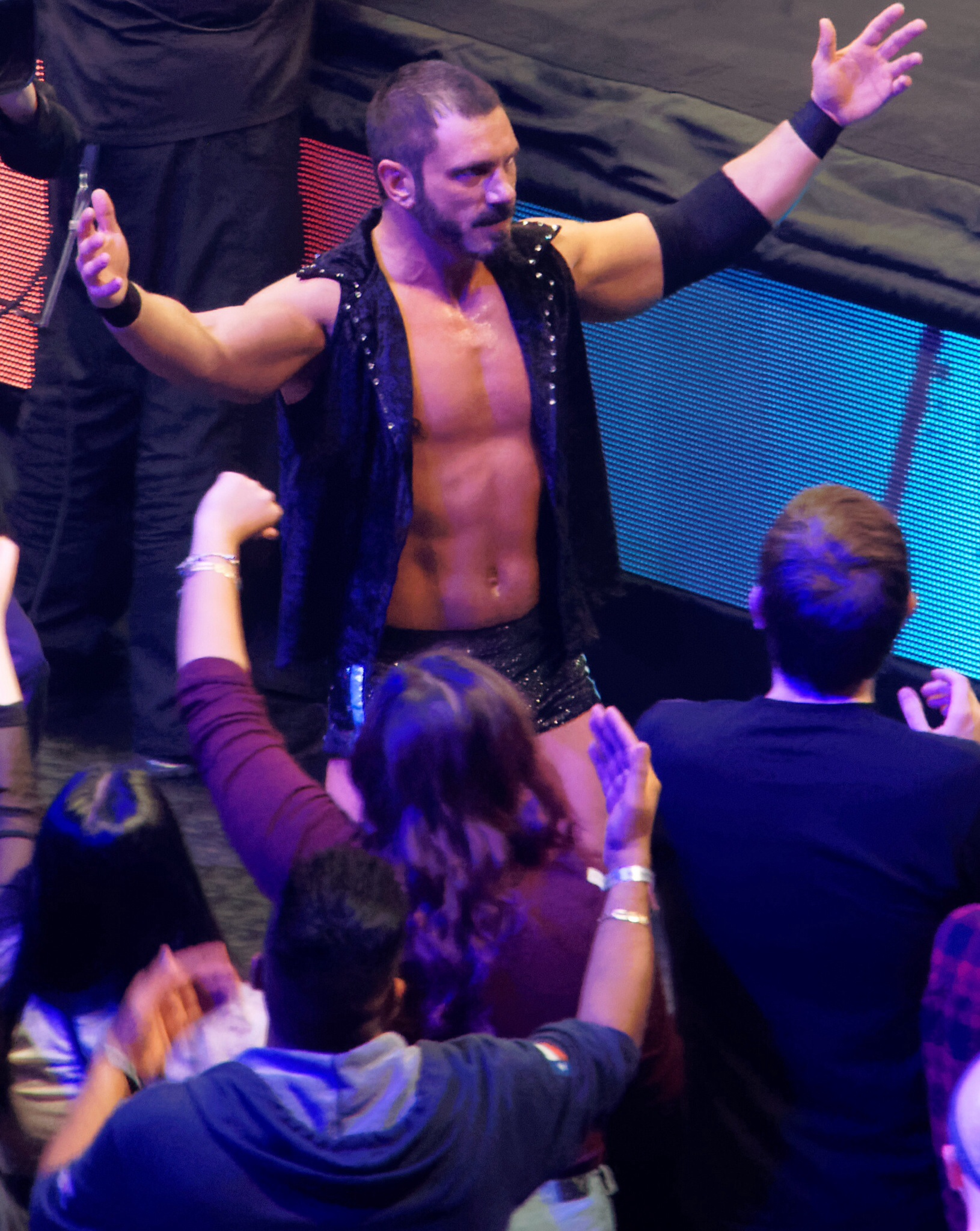 NXT TakeOver: Dallas was a major professional wrestling show in the NXT TakeOver series that took place on April 1, 2016, produced by WWE, showcasing its NXT developmental brand, and was streamed live on the WWE Network. It took place in the Kay Bailey Hutchison Convention Center in Dallas, Texas, during the weekend of WrestleMania 32. It was the first show in the NXT TakeOver series to be broadcast live on the WWE Network during WrestleMania weekend and first of 2016.[4] It was notable for Shinsuke Nakamura's WWE debut and first live match. The event received critical acclaim, with critics endorsing it as being better than WWE's WrestleMania 32 held two days later. The Zayn-Nakamura match was also lauded for being better than any match from WrestleMania 32. Austin Aries def. (pin) Baron Corbin